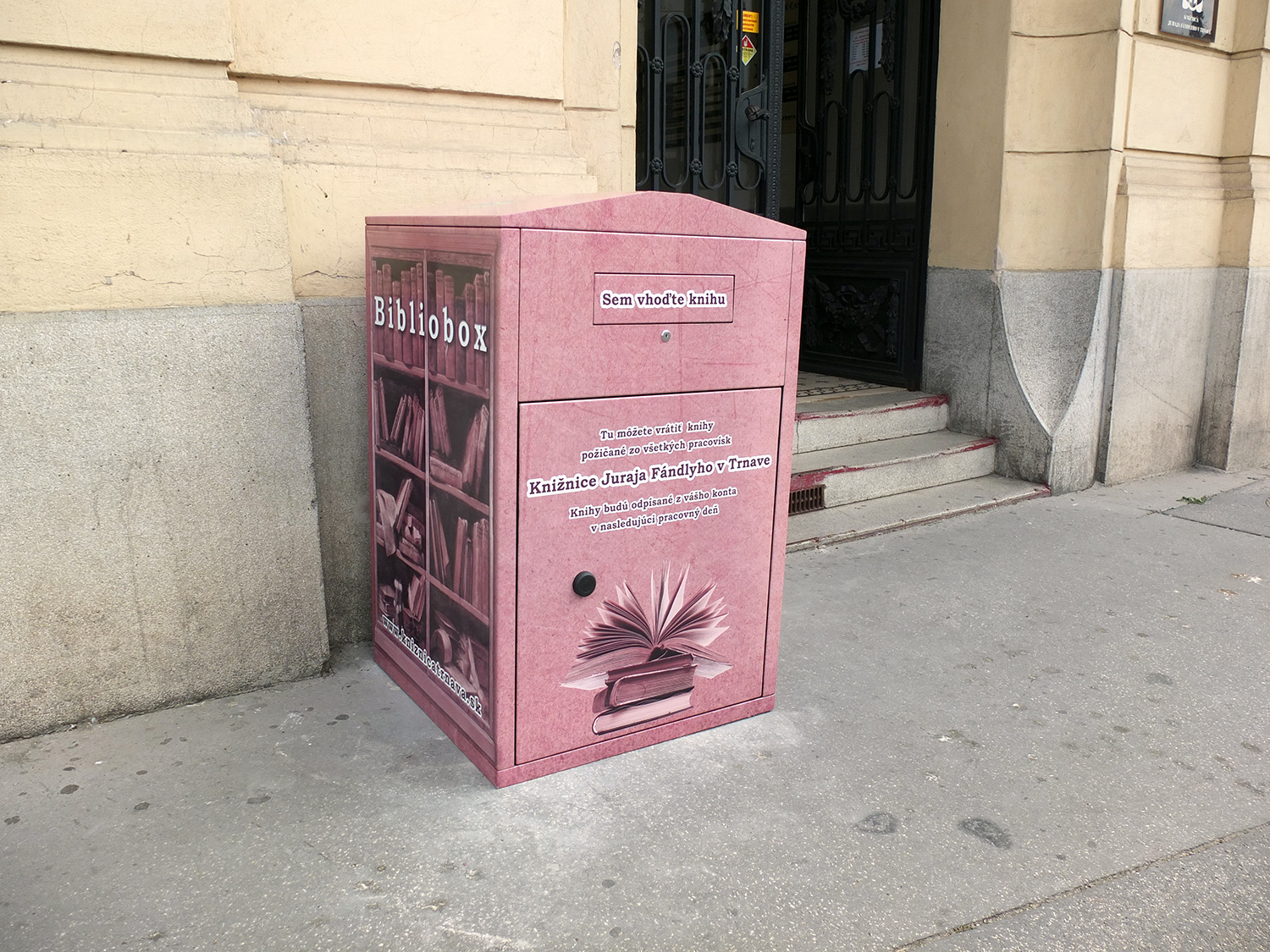 Library book drop box in Trnava, Slovakia